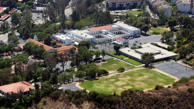 Aerial view of the Mission Basilica San Diego de Alcala in San Diego, California, USA Please acknowledge "Phil Konstantin" as the creator of this photograph.